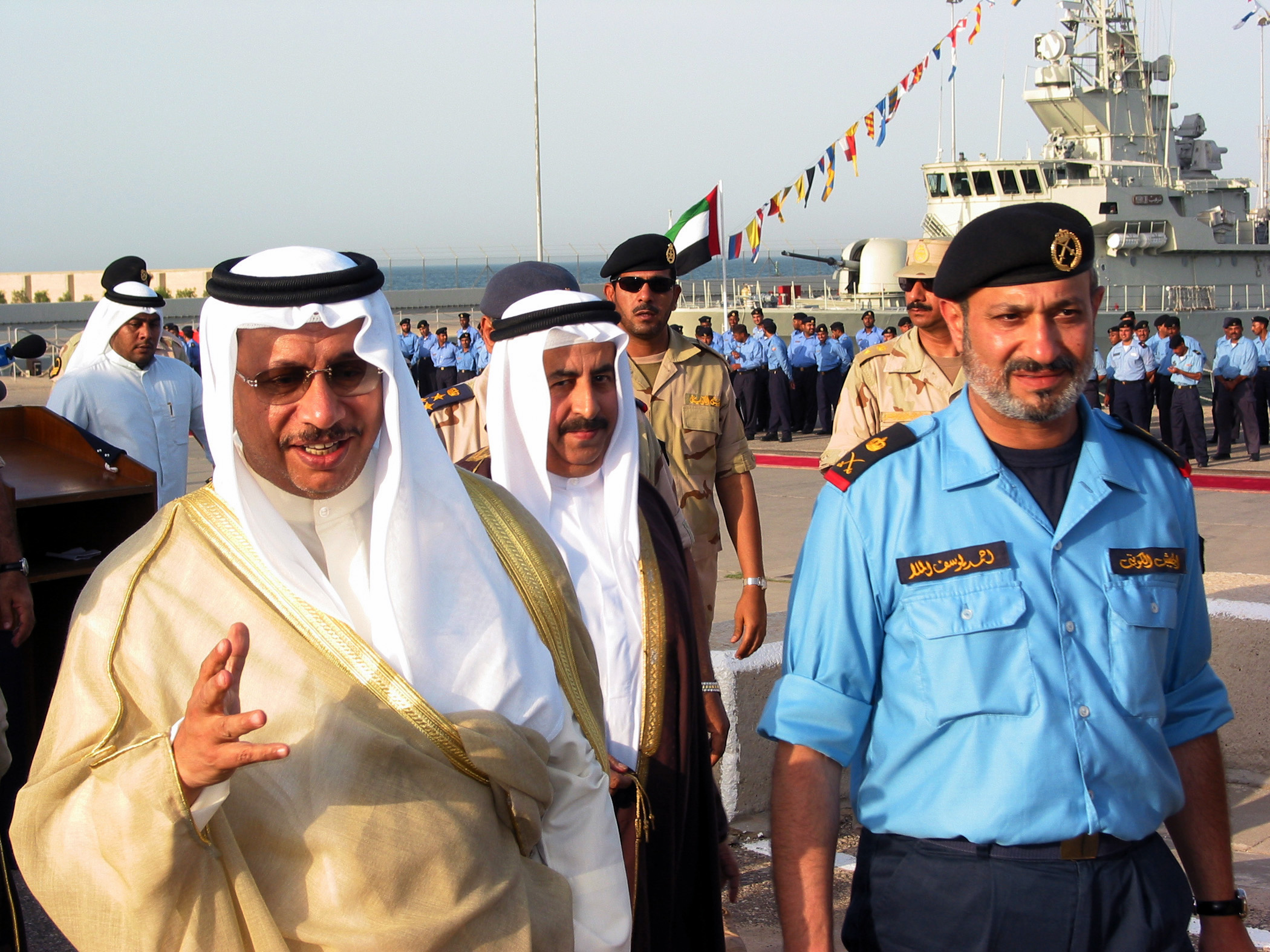 Camp Patriot, Kuwait (May 07, 2003) -- From left, Kuwait’s Defense Minister Sheikh Jaber al-Mubarak al-Sabah completes a troop review and inspection with Commander, Kuwait Naval Forces, Maj. Gen. Ahmed Y. al-Mulla during the Sheikh’s recent visit to Kuwait Naval Base and Camp Patriot. Sheikh al-Sabah bid Gulf Country Council (GCC) troops participating in Peninsula Shield farewell and thanks during a brief visit and ceremony attended by hundreds of area commanders and troops from the GCC states as well as U.S., British and Australian military leaders. The GCC is made up of members from the nations of Kuwait, United Arab Emirates, Bahrain, Saudi Arabia, Oman, and Qatar. Camp Patriot is home to over 3,000 U.S. Servicemen and women from all branches of military service and has worked hand-in-hand with coalition and GCC member-nations over the past months. U.S. Navy photo by Journalist 1st Class Joseph Krypel. (RELEASED)